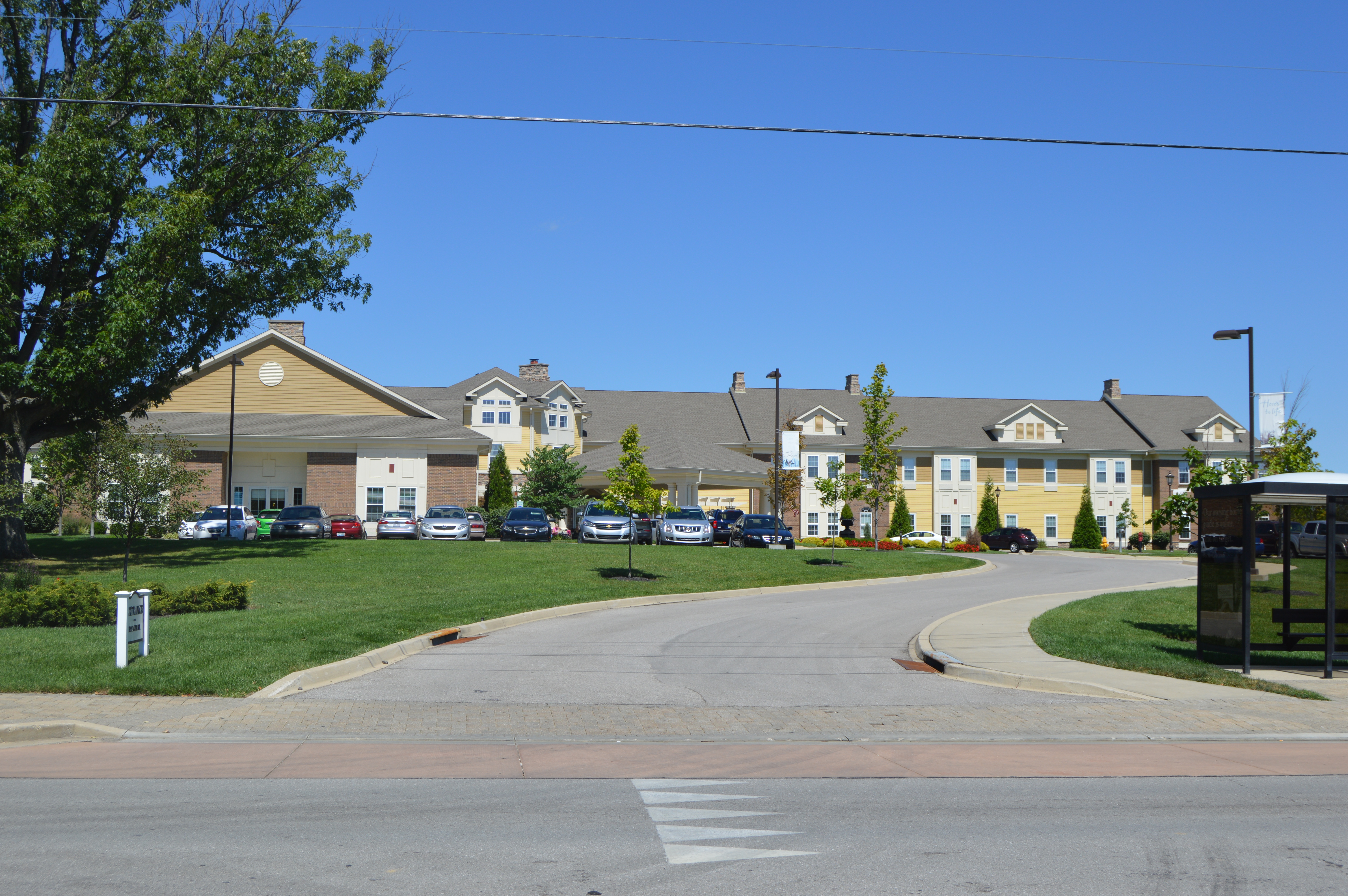 Entrance to the Elmcroft of Florence nursing home, located at 212 Main Street in Florence, Kentucky, United States. This was formerly the site of the John Delehunty House, which was listed on the National Register of Historic Places in 1988 and has not yet been delisted, despite its destruction.